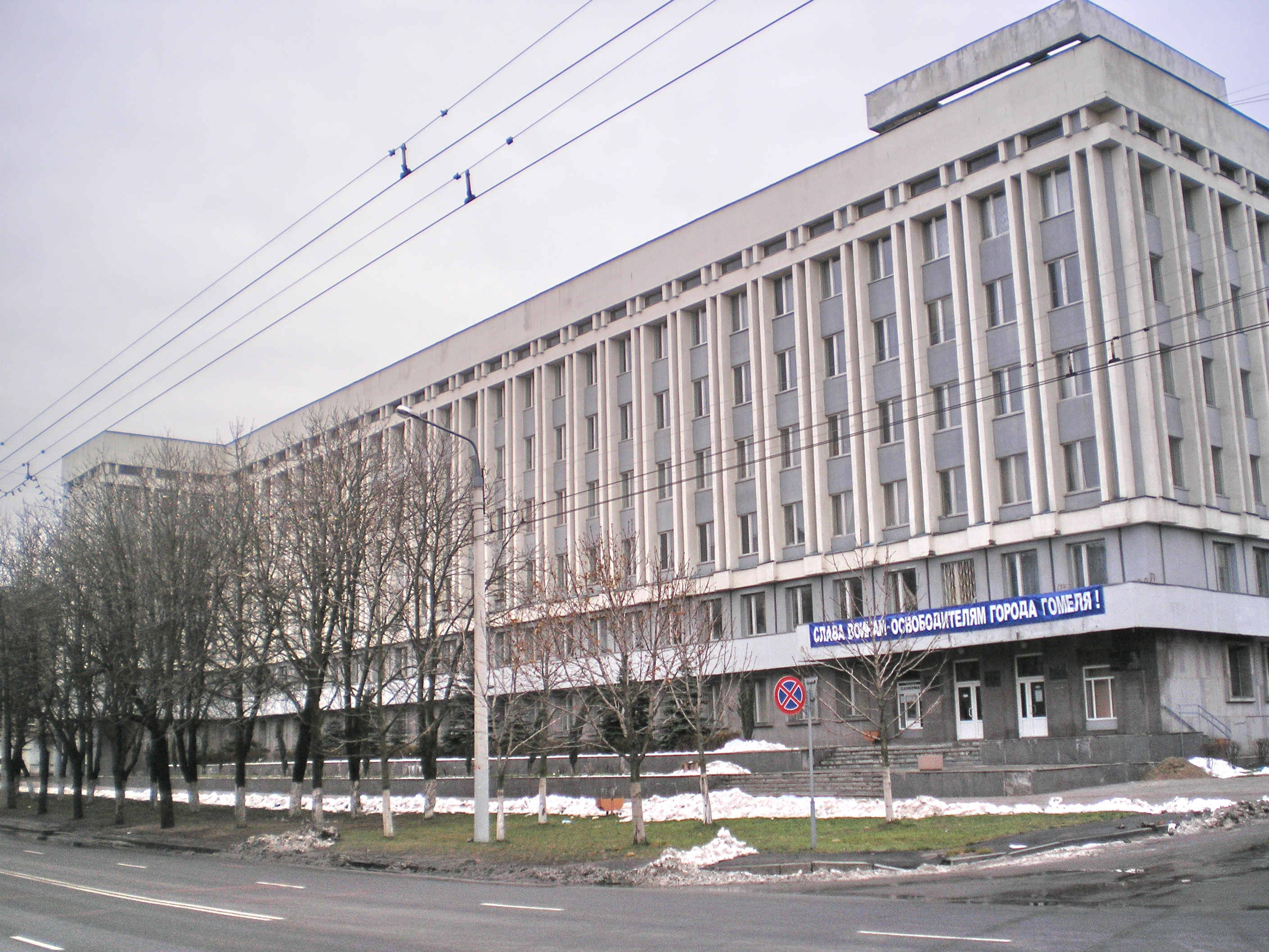 Gomel State University